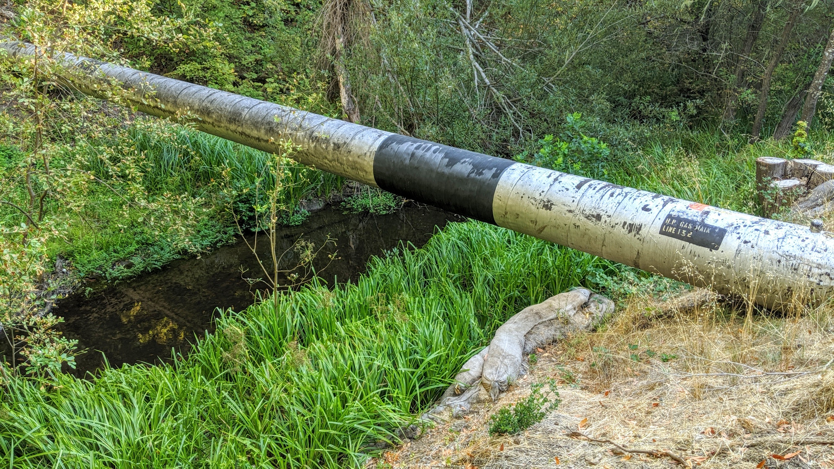 San Mateo Creek with high-pressure gas main crossing, below Crystal Springs Dam